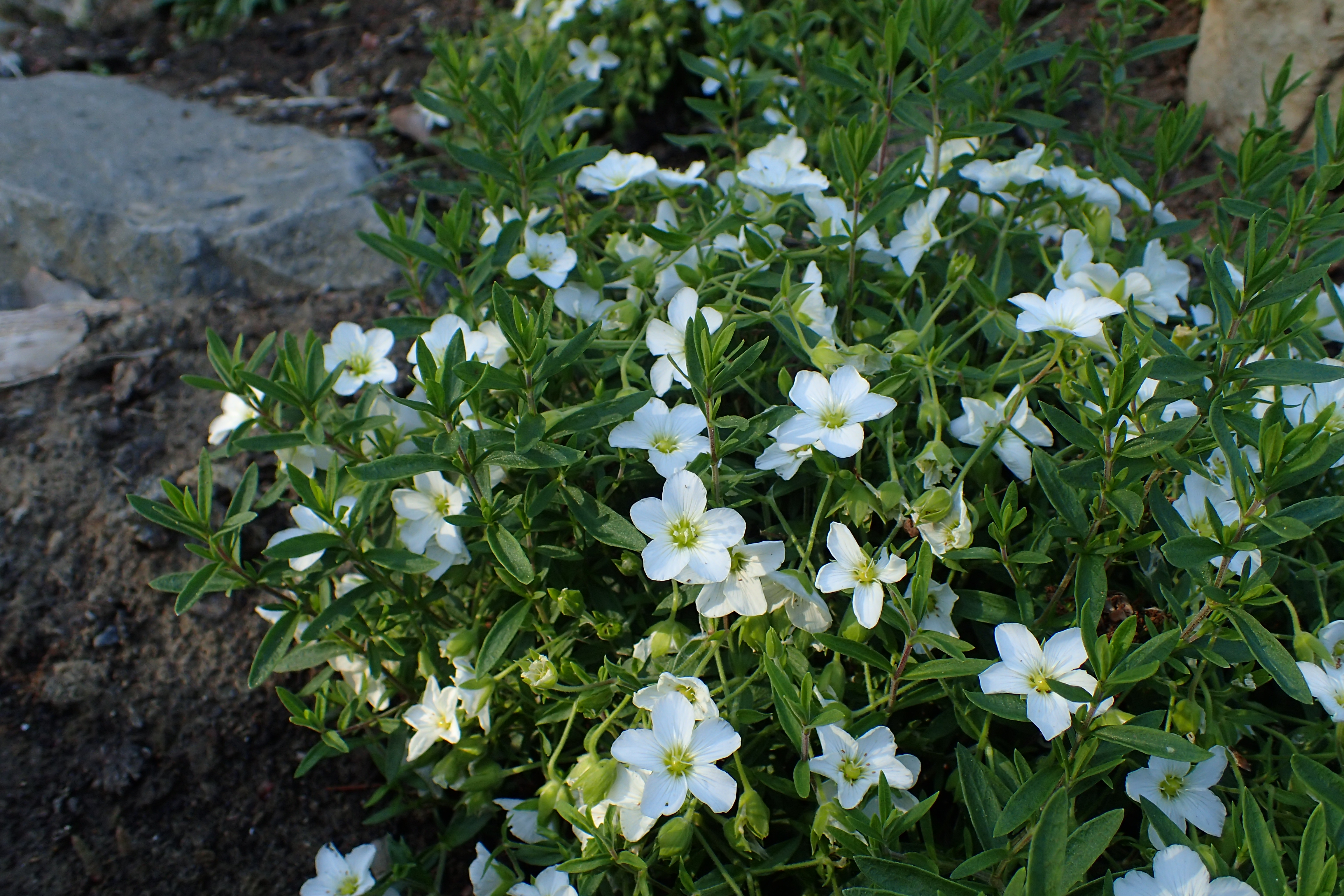 Arenaria montana in Botanical Garden of Szeged